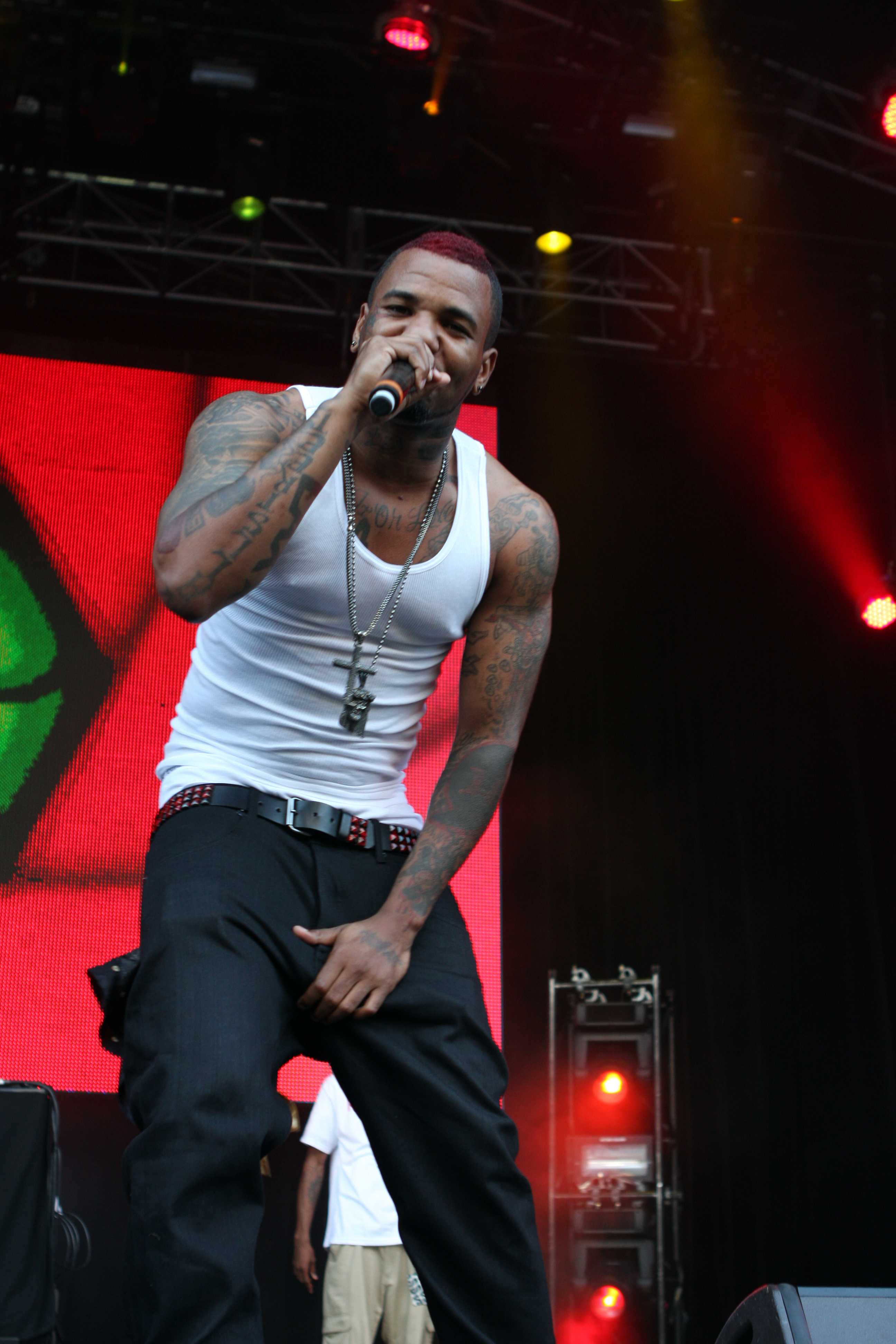 The Game Supafest